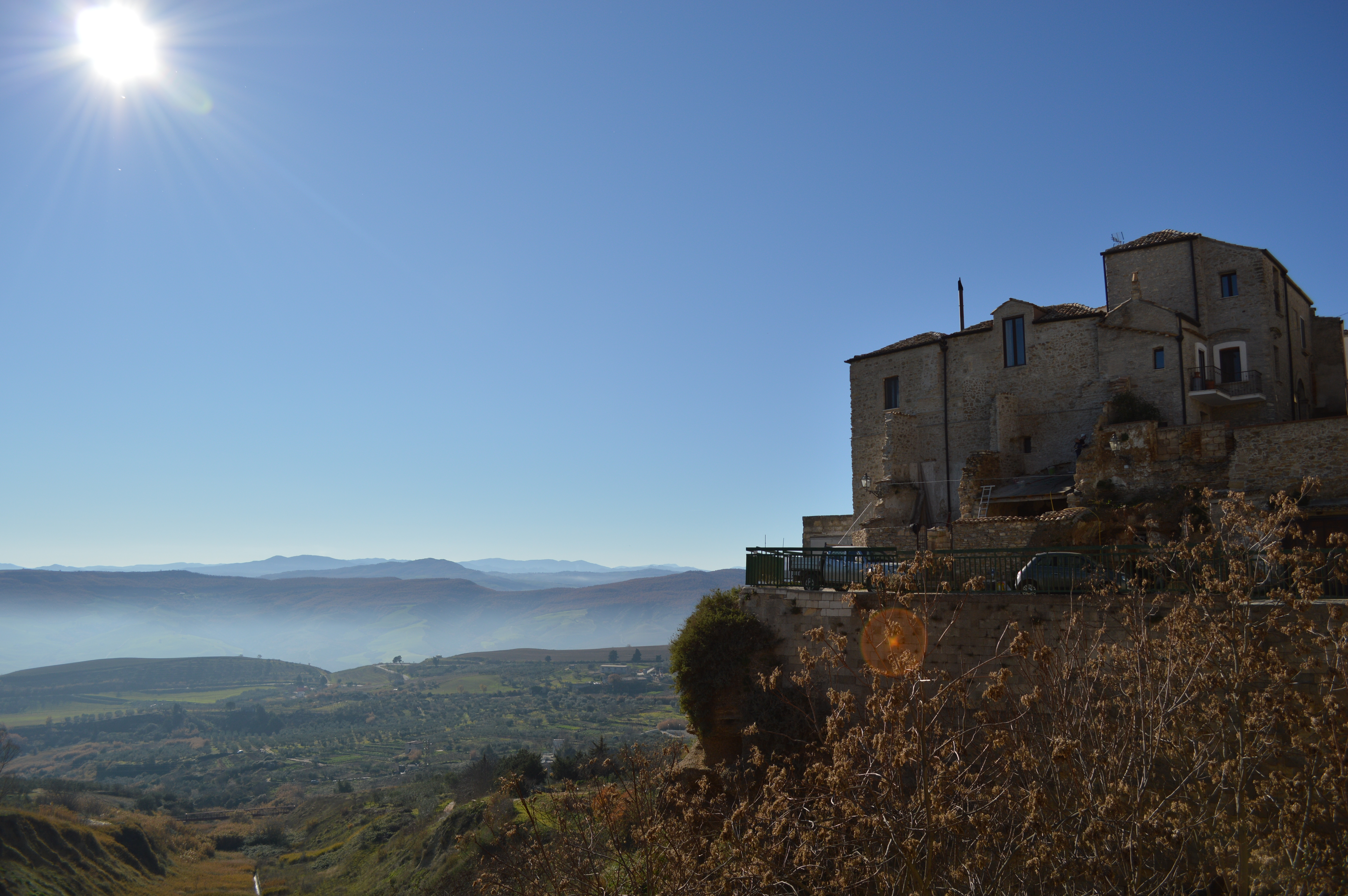 Veduta di Irsina sul fosse dei Greci